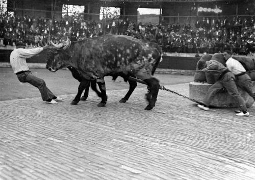 Dragging game with oxen in Eibar, 1923.